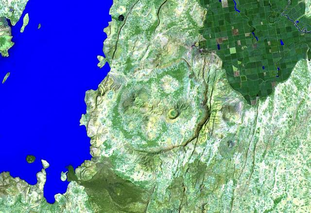 Gedamsa caldera is located along the Main Ethiopian Rift east of Lake Koka (left) and SW of the Wonji Sugar Estate Farm (upper right). The 7 x 9 km wide caldera (also spelled Gadamsa or Gedemsa) is cut by many NNE-SSW-trending regional faults of the Ethiopian Rift. A chain of rhyolitic lava flows and a large 1-km-wide crater occupies the caldera floor. A young lava dome and flow is found on the SW flank of the volcano (lower left).